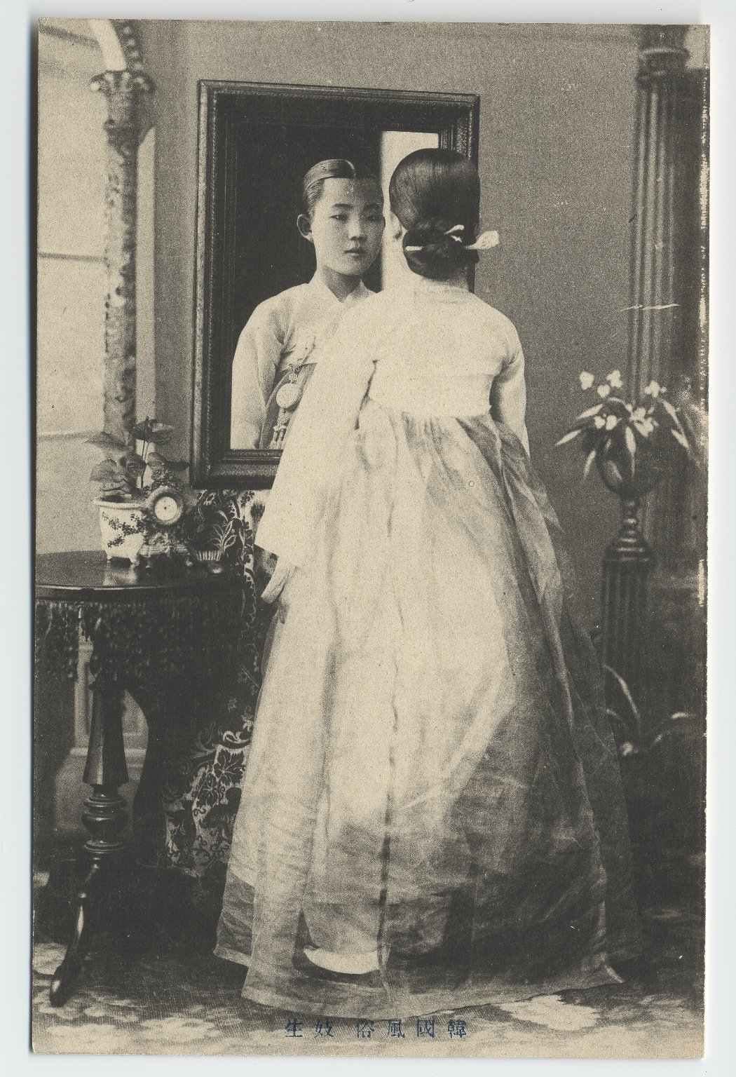 Collection: Willard Dickerman Straight and Early U.S.-Korea Diplomatic Relations, Cornell University Library Title: Corean beauty Date: ca. 1904 Place: Asia: South Korea Type: Postcards/Ephemera Description: A young 'kisaeng' (singing girl) in full Korean traditional dress. She has a typical married women's hair style (jjok), which is called chignon with a hairpin (the 'pinyo'). Korean 'kisaeng', or singing girls, dressed up for singing and dancing. A 'Kisaeng's' social position was among the lowest in the traditional Korean class system. Their daughters also became 'kisaeng' and their sons became slaves. The art of entertaining of the 'kisaeng' is analogous to the Japanese geisha. These professional entertainers were highly trained in the arts of poetry, music, dance, and other forms of social or artistic diversion. eIn the early 1900s, 'kisaeng' did their hair up in a 'chignon' and wear shorter jackets (about 7-8 inches) than ordinary women - The skirts were cut with a full slit at the back and were fixed to the right side, while upper class women's skirt were fixed to the left.e Source: Kwon, O-chang. Inmurhwaro ponun Choson sidae uri ot, 1998, p. 140. Inscription/Marks: Pencilled inscription on verso of image: 'Corean beauty' Identifier: 1260.74.12.06 Persistent URI: There are no known U.S. copyright restrictions on this image. The digital file is owned by the Cornell University Library which is making it freely available with the request that, when possible, the Library be credited as its source. We had some help with the geocoding from Web Services by Yahoo!